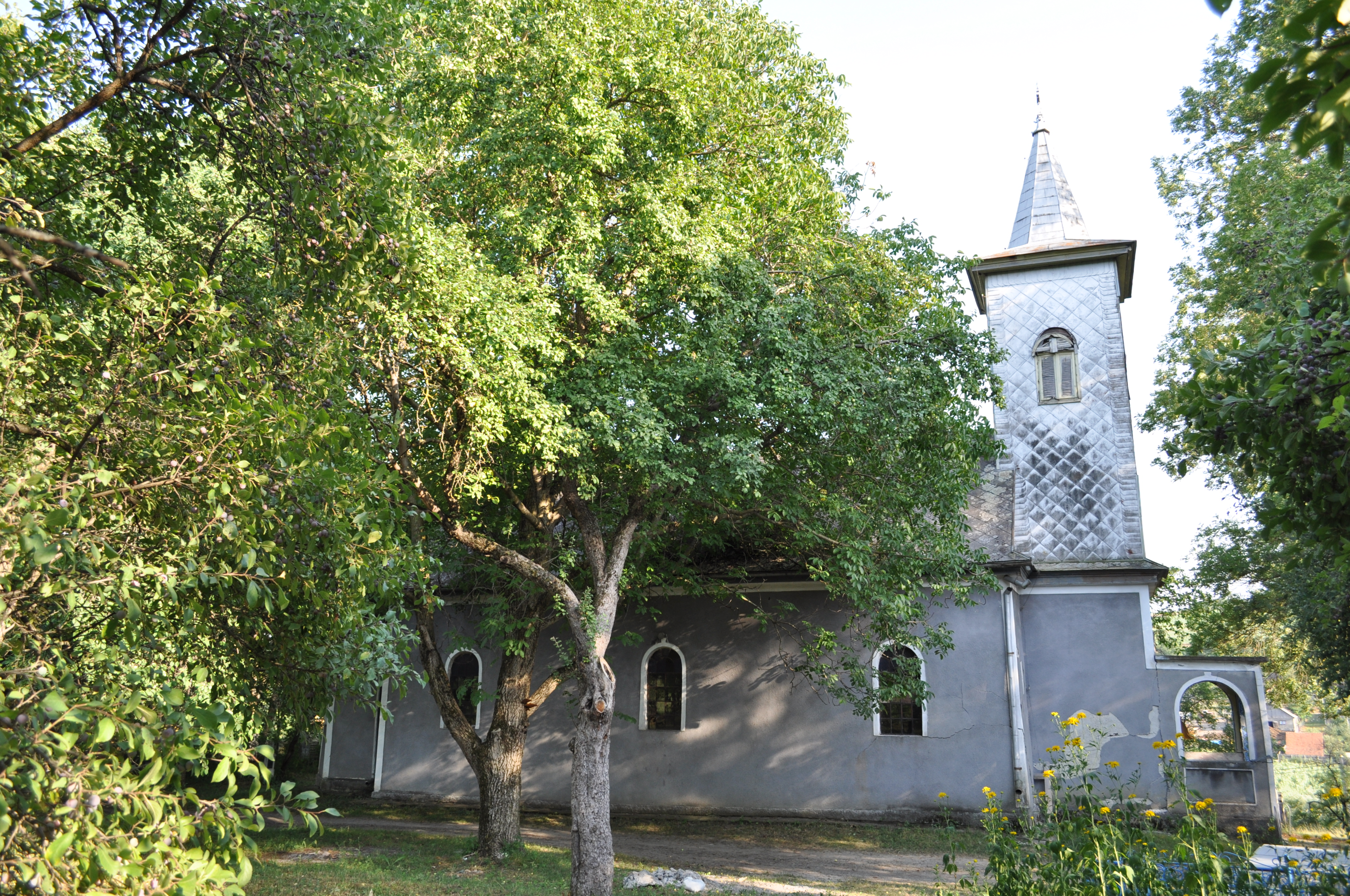 Orosfaia, Bistrița-Năsăud county, Romania